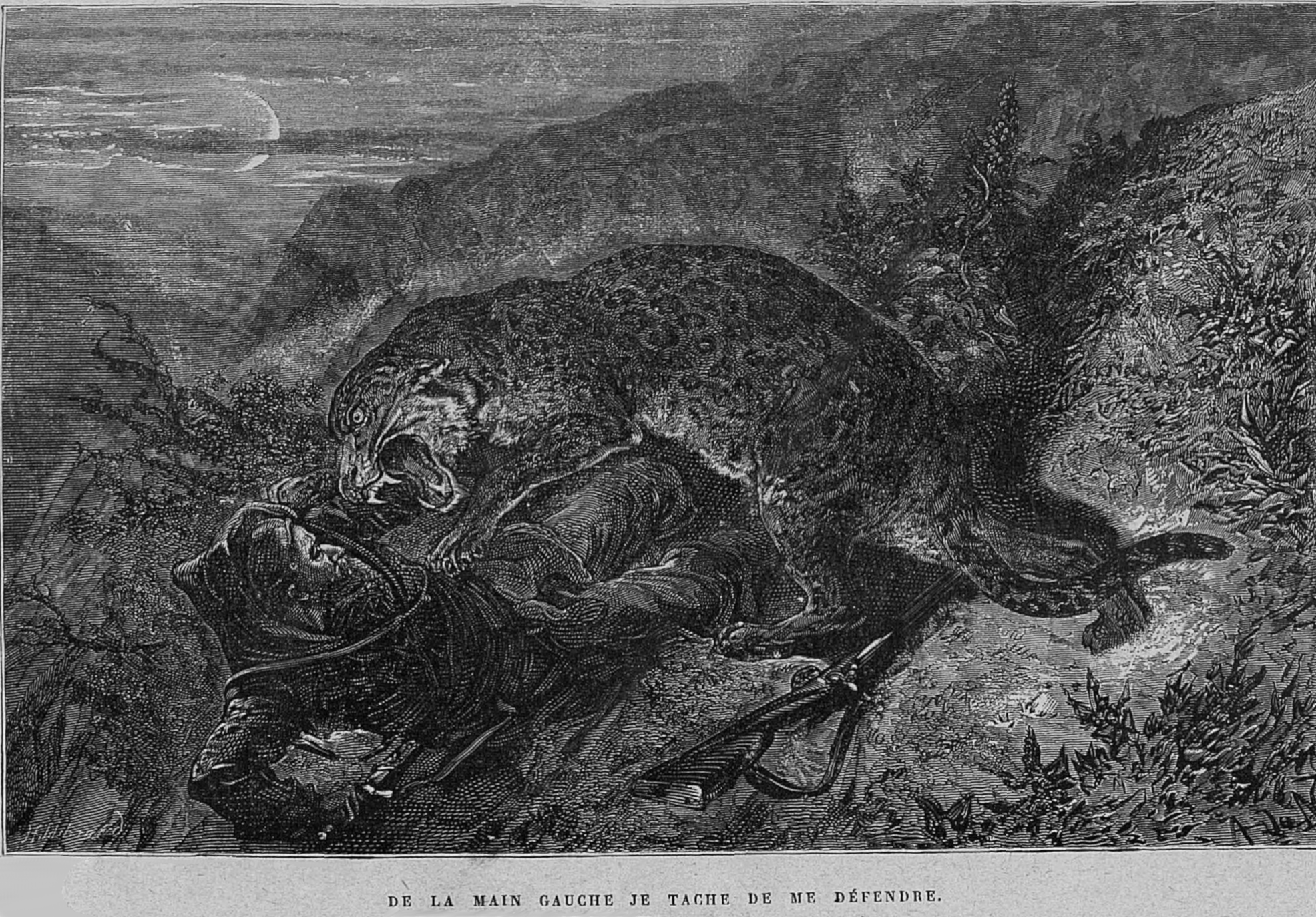 Bombonnel is close to death